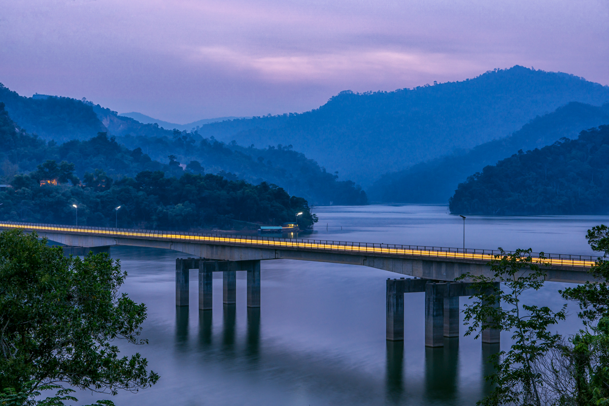 Royal Belum Rainforest captured during blue hour, Perak, Malaysia.